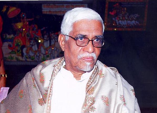 Bannanje Govindacharya of Udupi, Karnataka. One of the foremost scholars of Sanskrit and Tattvavada(Dvaita)